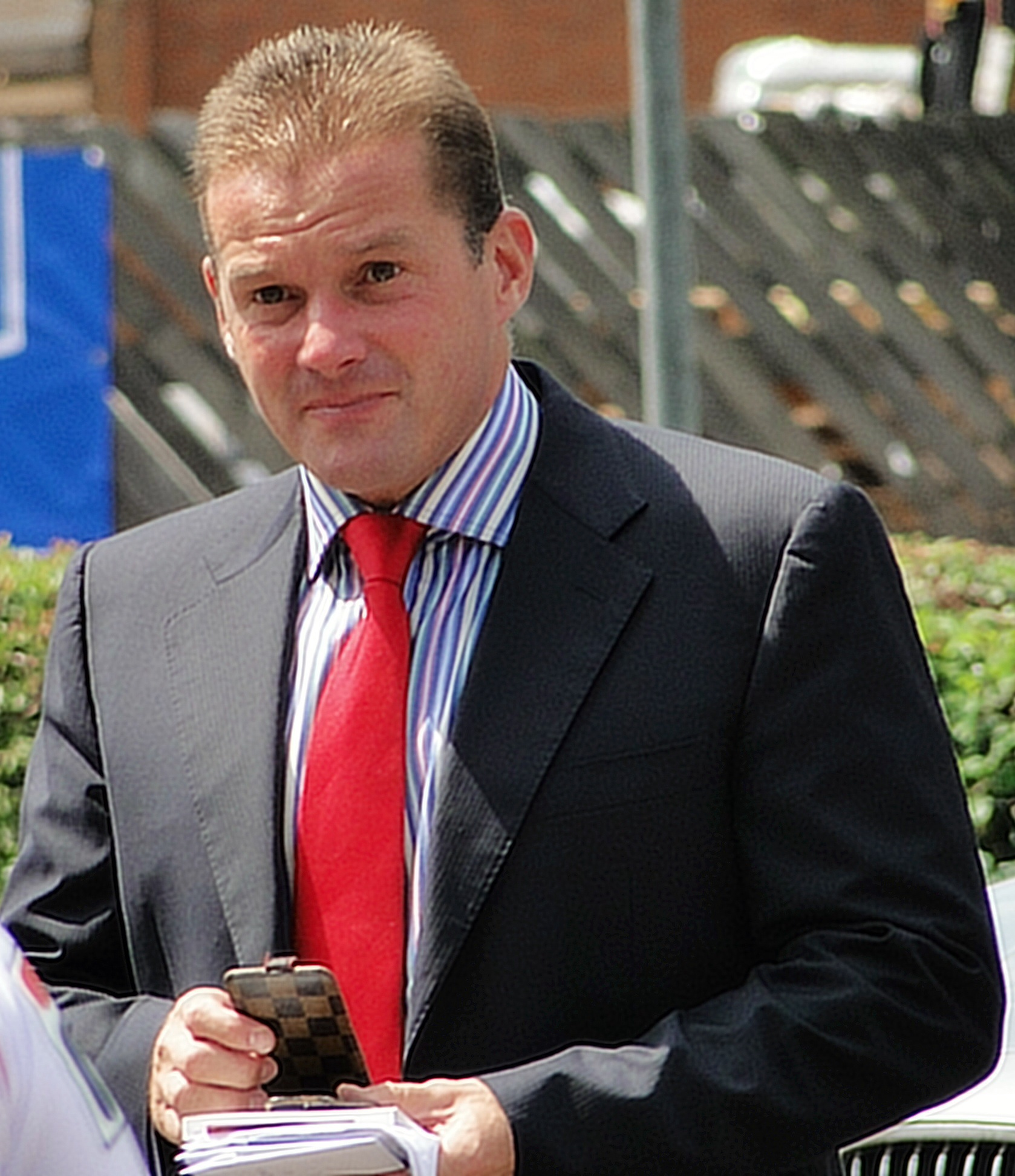 Westley at Broadhall Way before Stevenage's friendly game vs West Ham United, July 2014